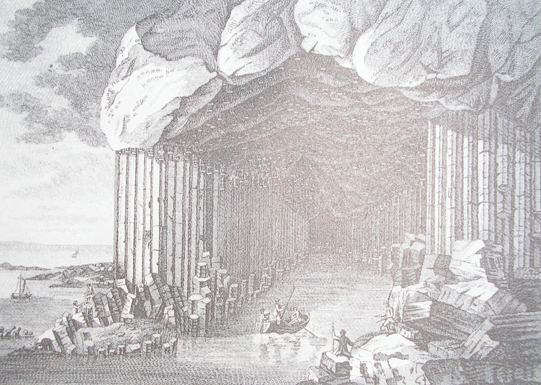 Engraving based on an 18th century work by John Cleveley Jnr. Originally published in Thomas Pennant (1772) A Tour of Scotland and a Voyage to the Hebrides.